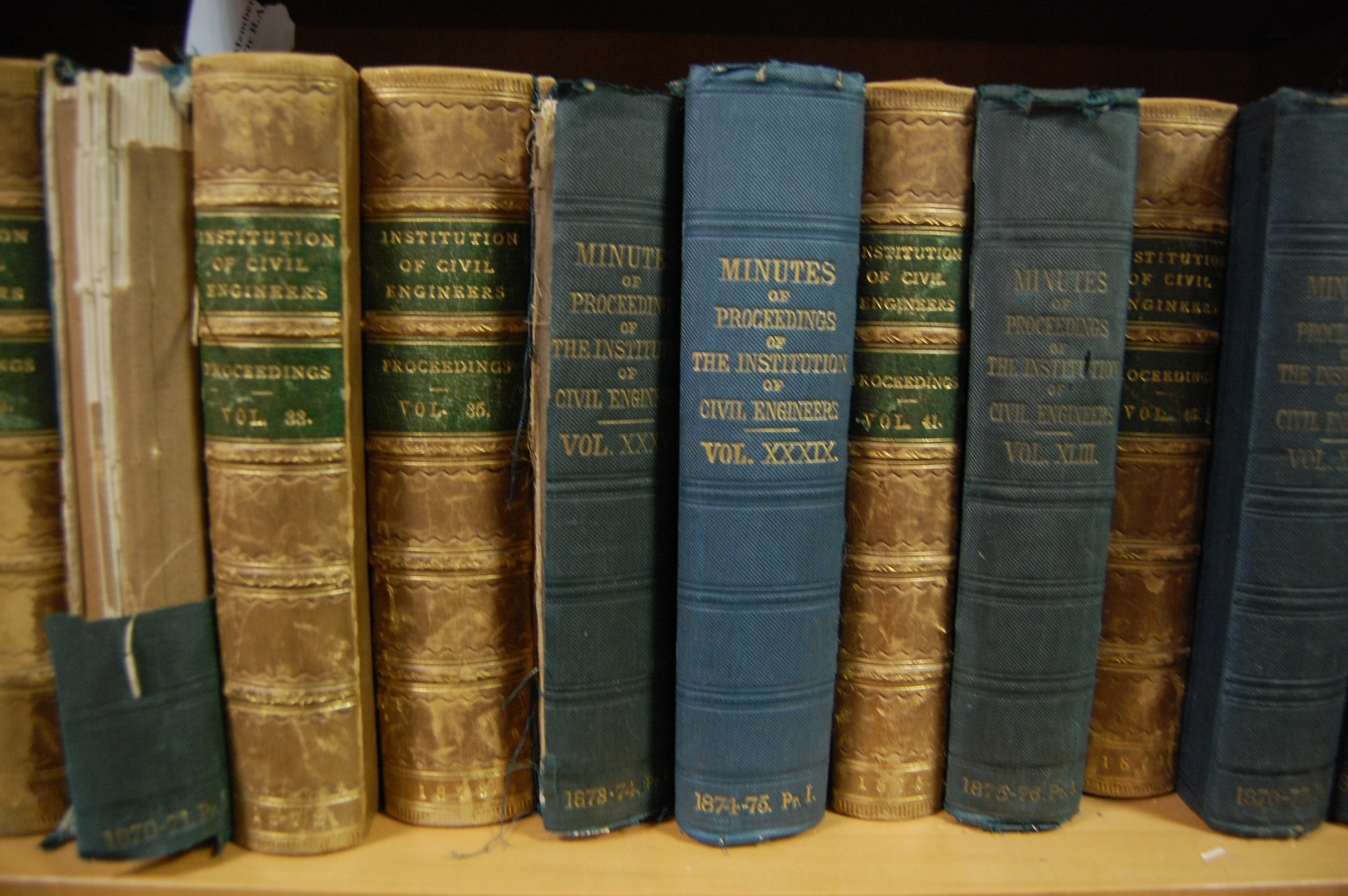 Taken at a Wikipedia editathon at the Institution of Civil Engineers, at their headquarters, One Great George Street, London.